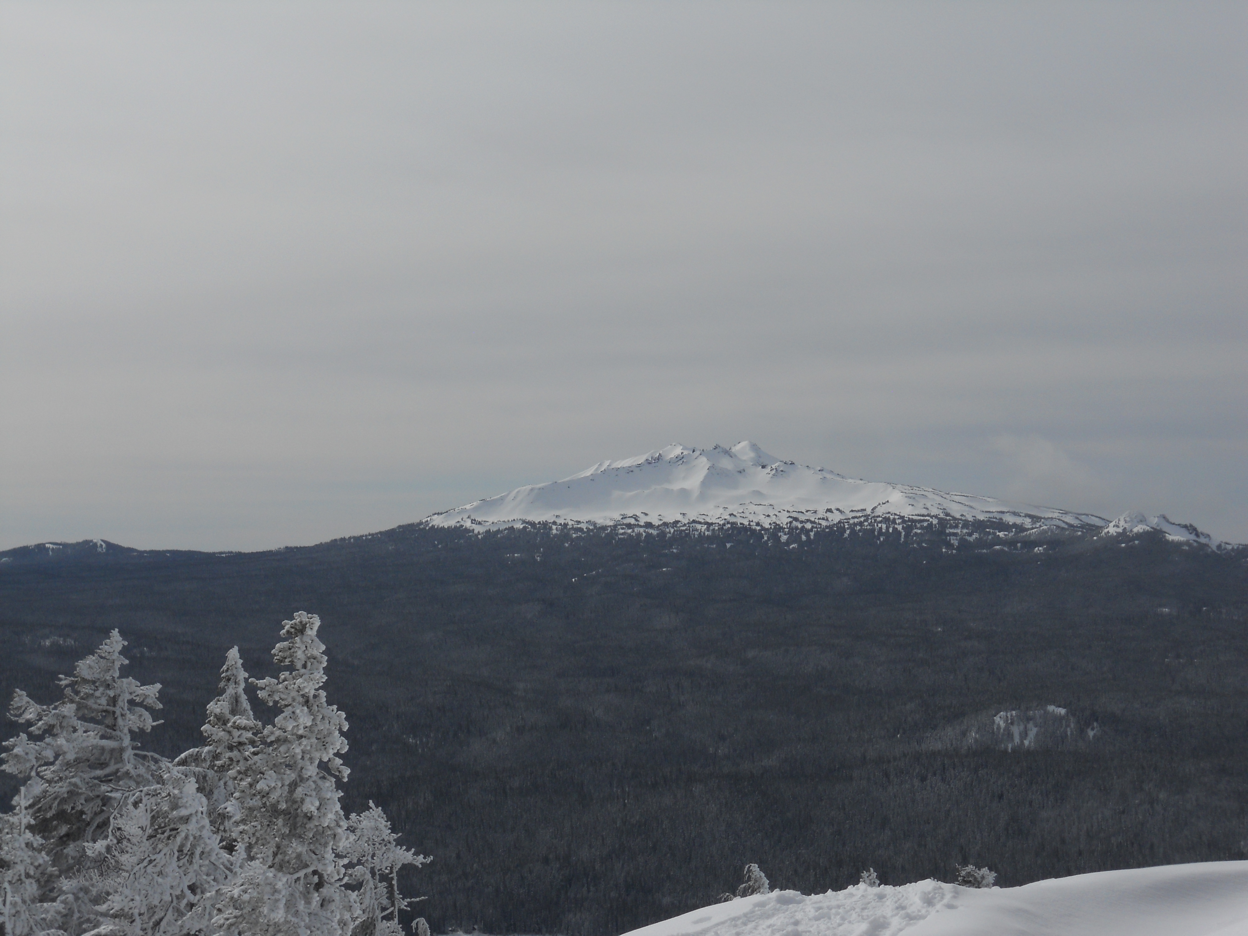 Diamond Peak as seen from Willamette Pass Resort in Oregon